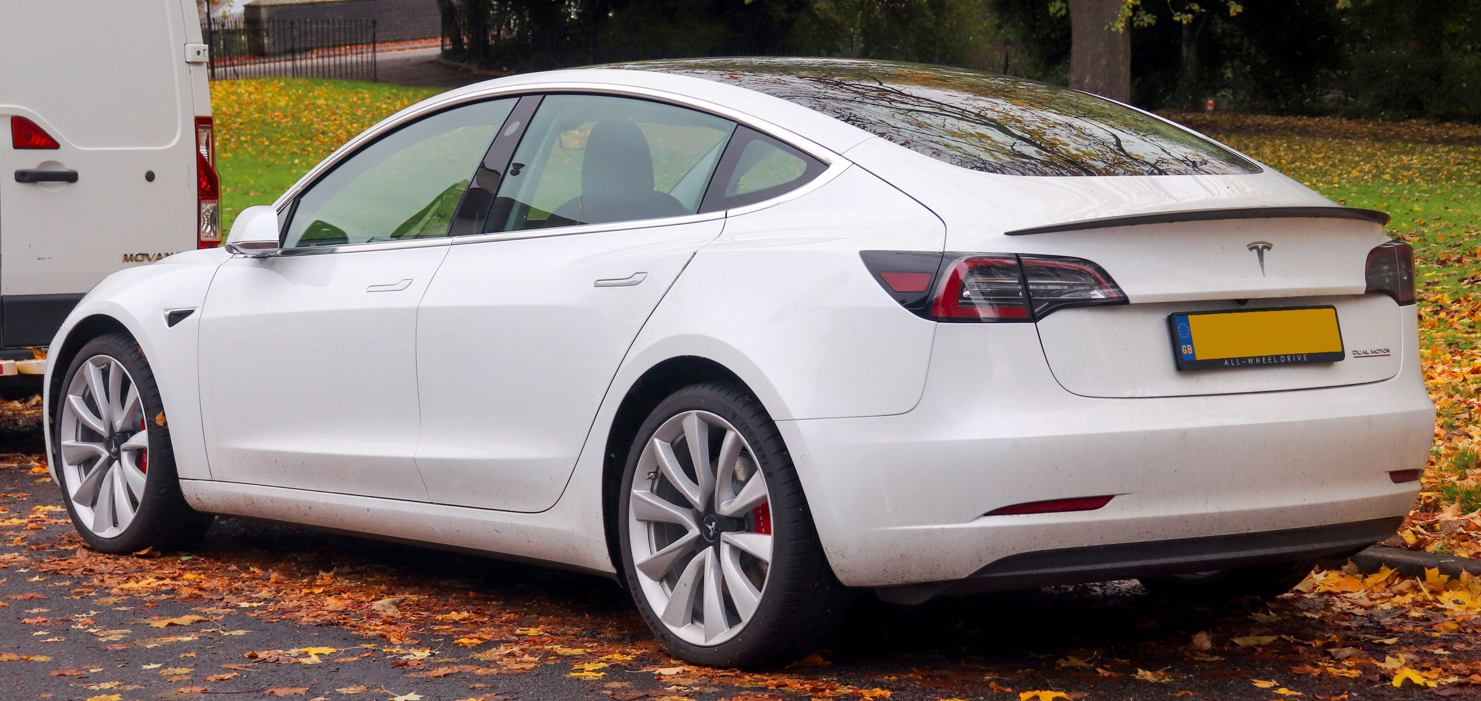 2019 Tesla Model 3 Performance AWD Rear Taken in Leamington Spa